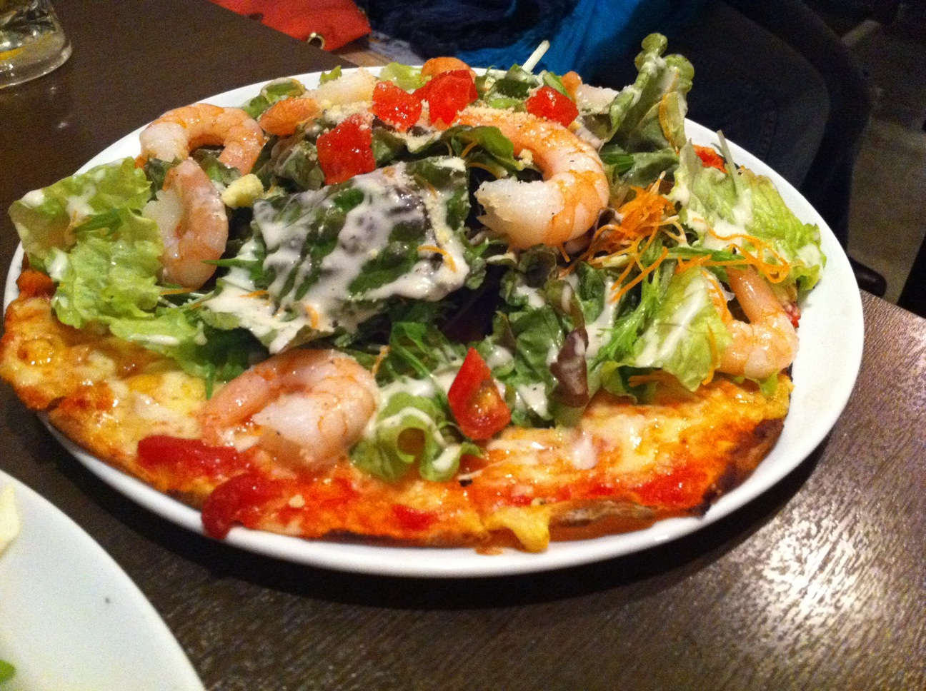 Salad pizza with shrimp